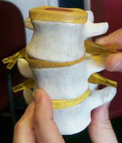 Model of a spine, with the top vertebra pushing at an uncomfortable angle, pinching nerves and spinal discs. Dr. Karyn Marshall holds up a model of the human spine when it is out of alignment.